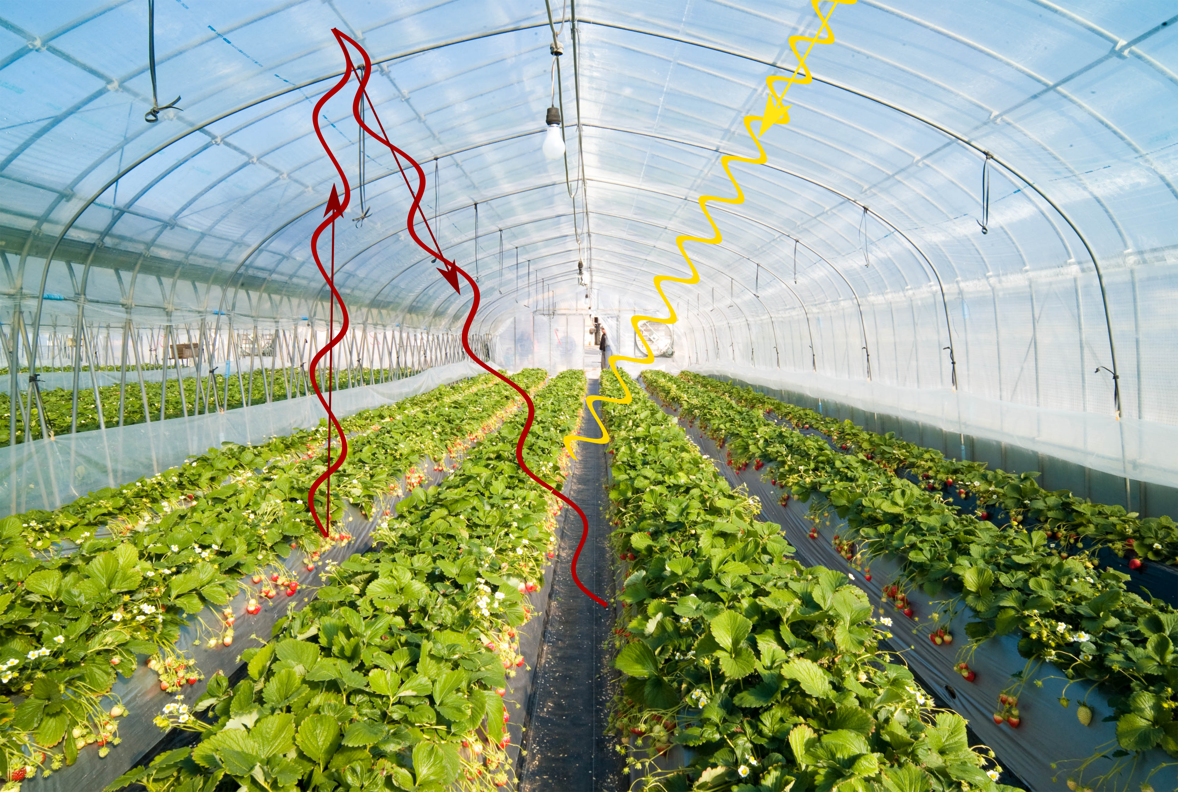 Demonstrates visible light entering a greenhouse, the heat is re-radiated as infrared light that is unable to penetrate the glass.